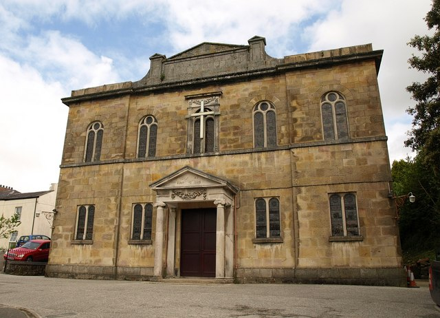 St John's Methodist Church, St Austell As the wording over the door states, the building dates from 1828 and was restored in 1882.